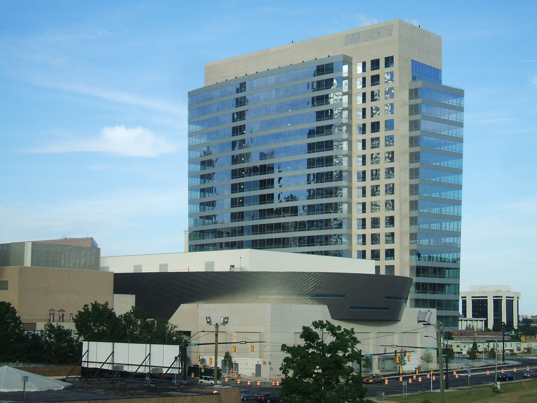 NASCAR Hall of Fame Under Construction